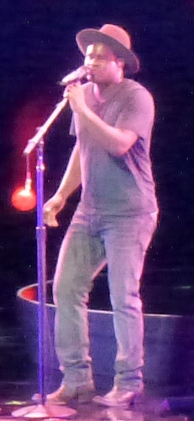 Country / blues rock artist C.J. Harris performing at Wolf Trap in Vienna, Virginia during the 2014 American Idol summer tour.